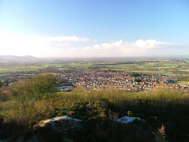 Great Ayton, North Yorkshire, seen from Cliff Ridge (looking west)